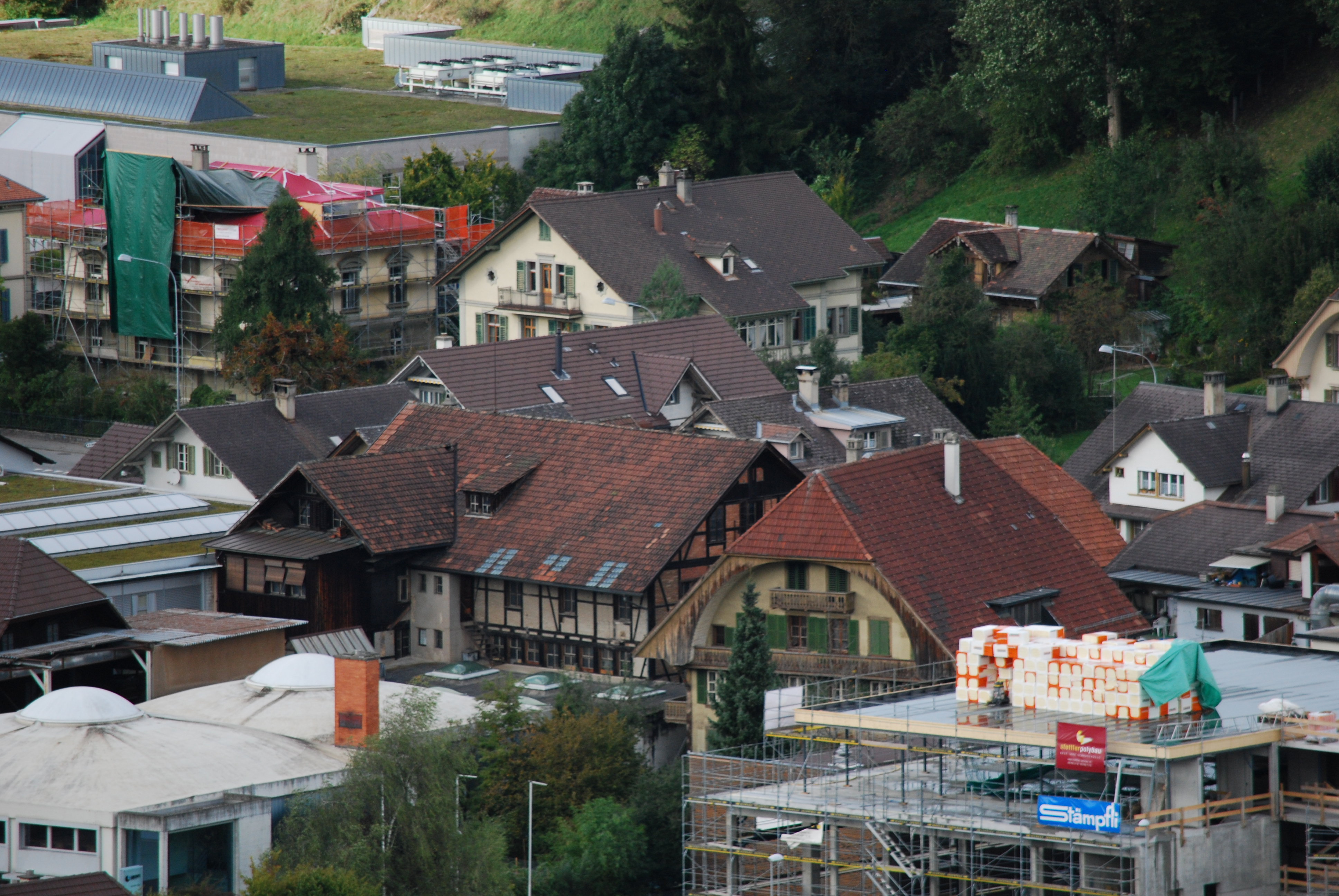 Langnau in the Emme Valley, canton of Bern, SwitzerlandEsperanto: Langnau en Emme-Valo, Kantono Berno, Svislando